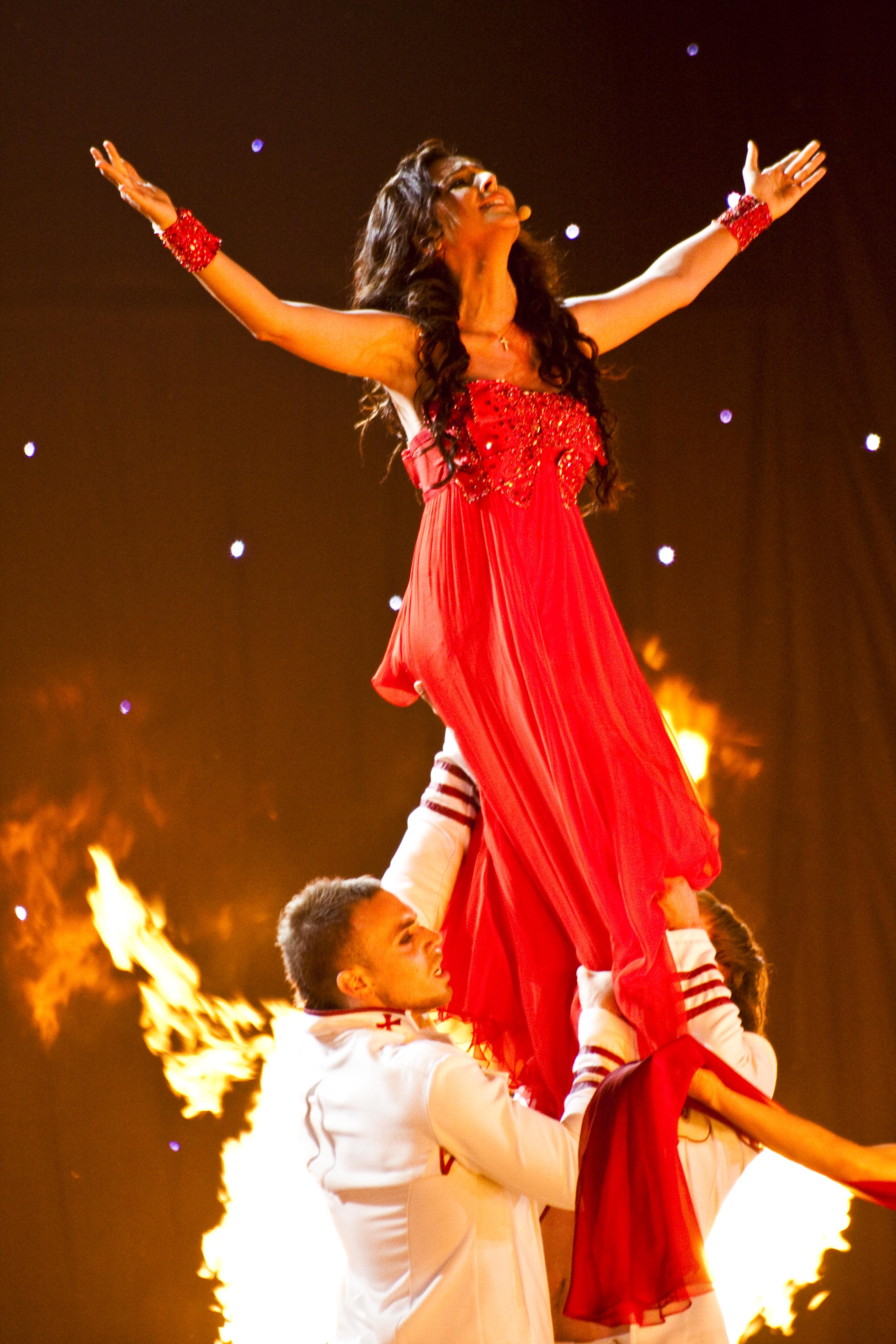 Sopho Nizharadze representing Georgia at Eurovision Song Contest 2010 in Oslo, Norway.